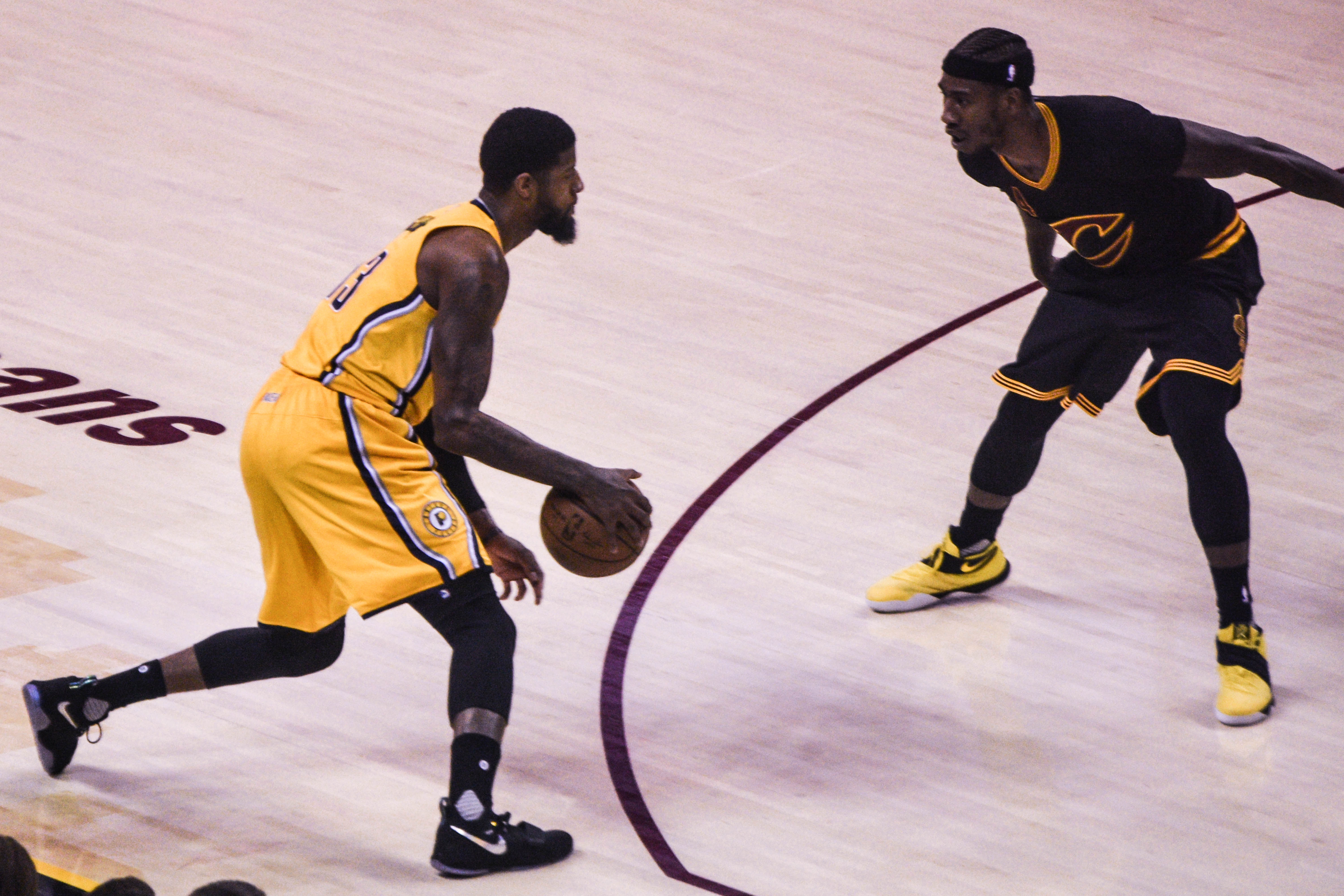 Paul George (left), Iman Shumpert (right)